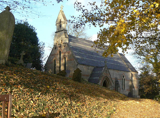 Bulcote Holy Trinity Church A small aisleless and towerless building of 1862. It is not a parish church in its own right, being a chapelry of the parish of Burton Joyce.